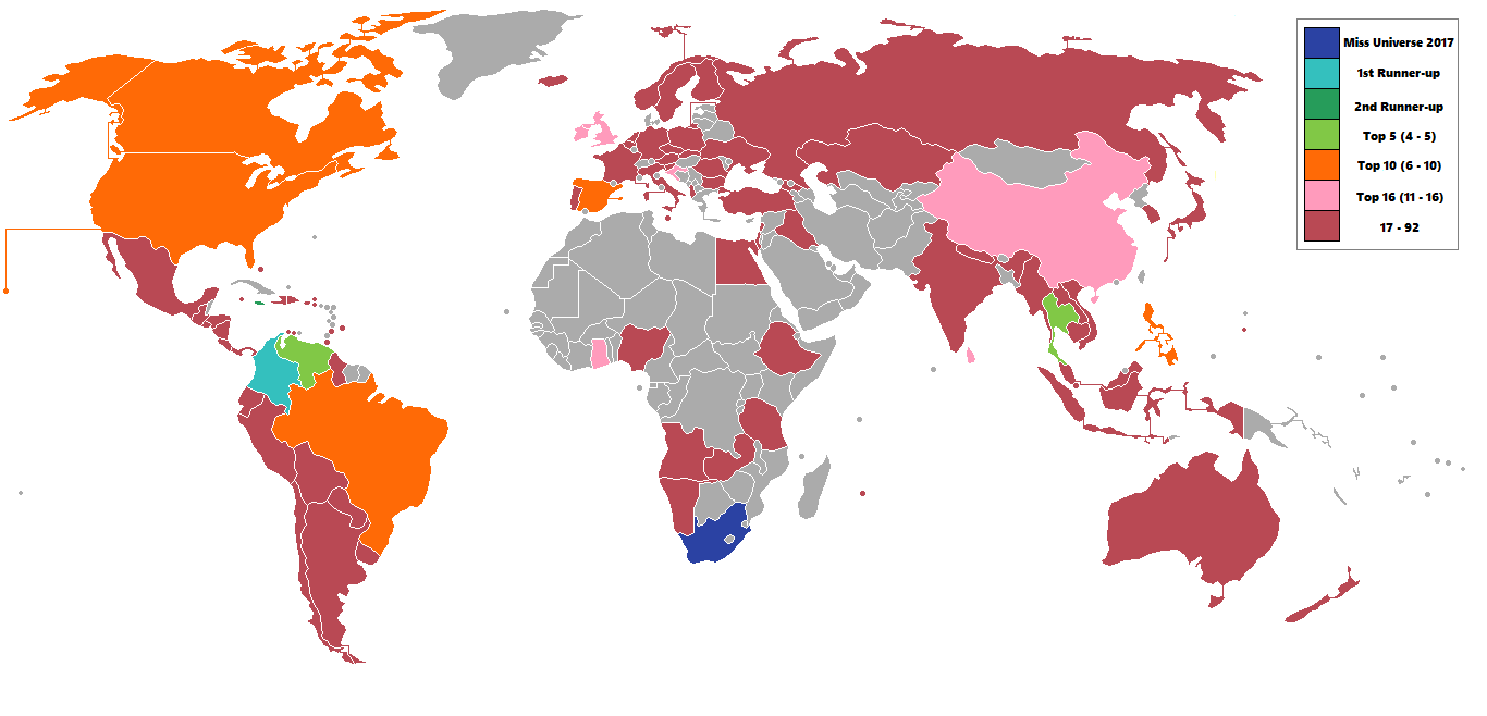 Miss Universe 2017 participant countries and territories.